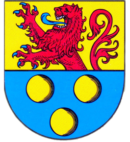 Coat of Arms of Auerbach, part of Bensheim